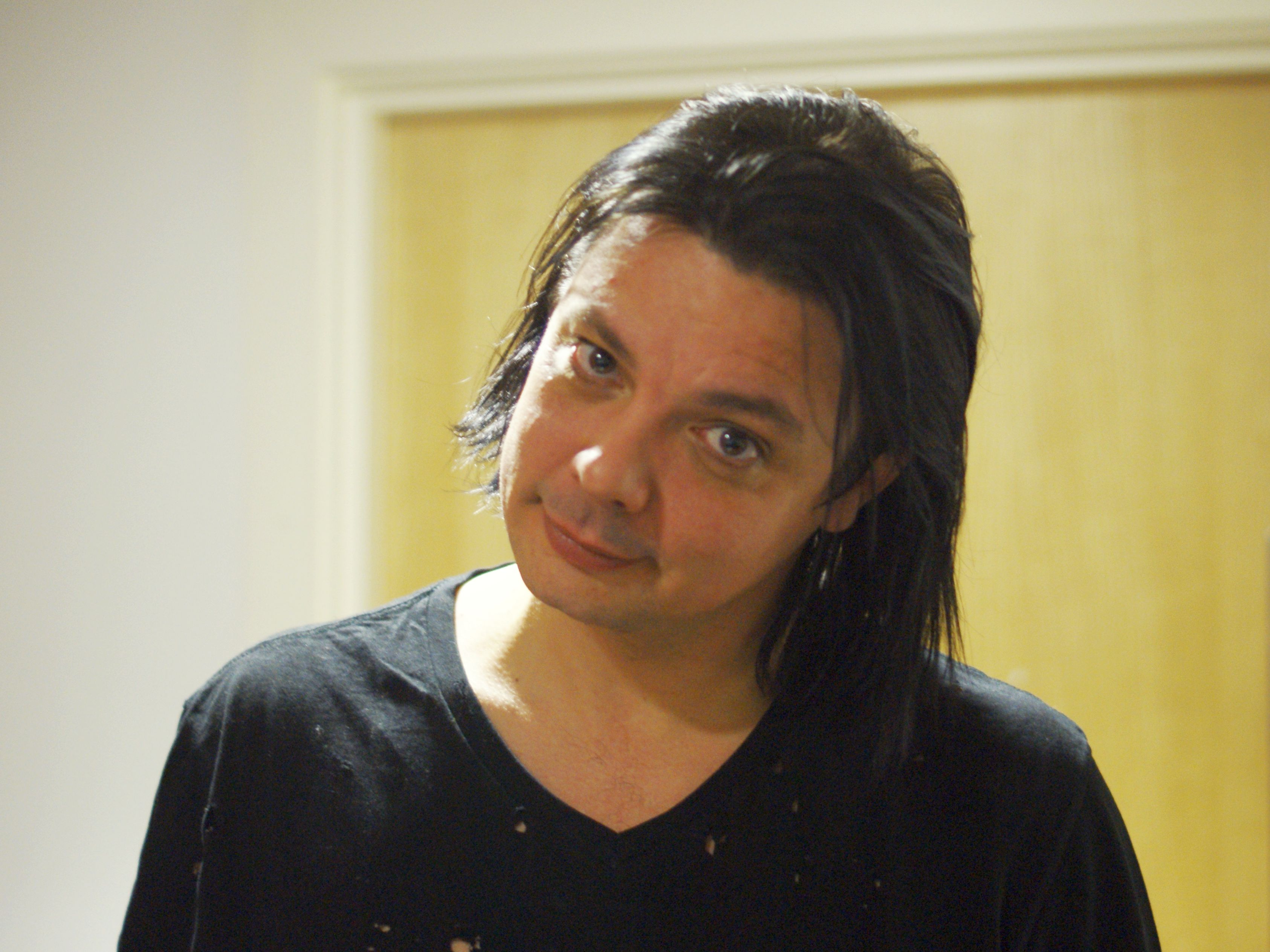 Steve Hewitt backstage. Love Amongst Ruin backstage at Academy 1, Manchester, on Sunday the 13th of February 2011